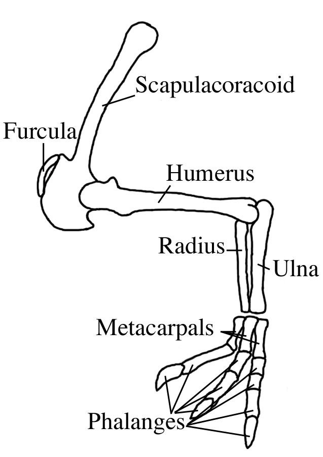 Diagram of the bones of the forelimb of Deinocheirus mirificus with english labels for the various bones.